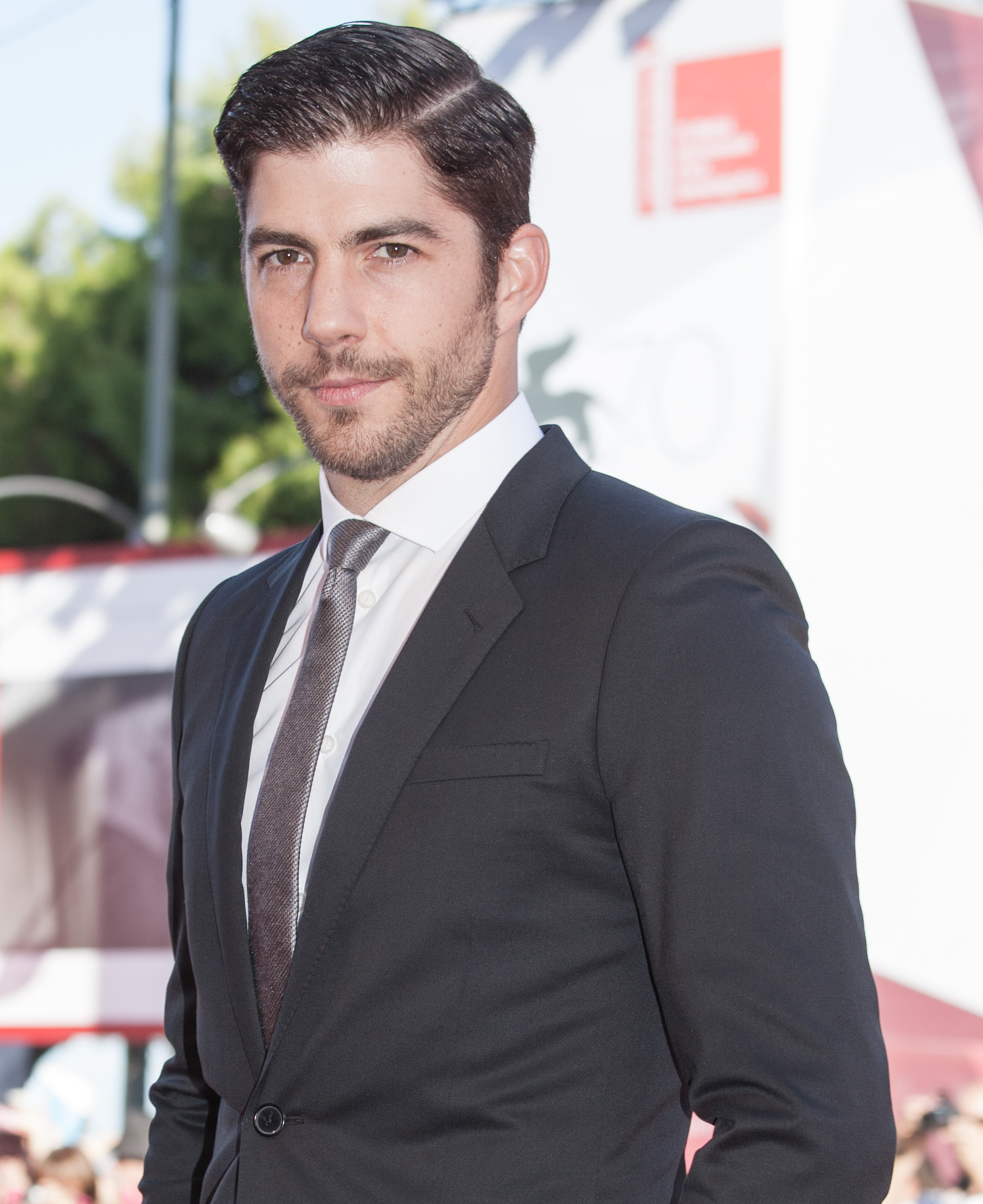 Pierre-Yves Cardinal at the 70th Venice International Film Festival